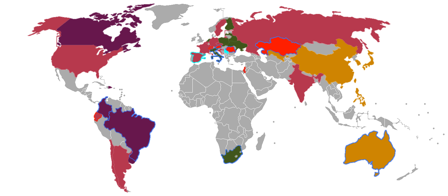 Status of countries with respect to 2010 Davis Cup in focus of the World Group: World Group Americas Zone Group I Davis Cup Asia/Oceania Zone Group I Europe/Africa Zone Group I Countries promoted to World Group Play-Offs Countries advanced to World Group Countries relegated to Group I 2010 champion Defending champion